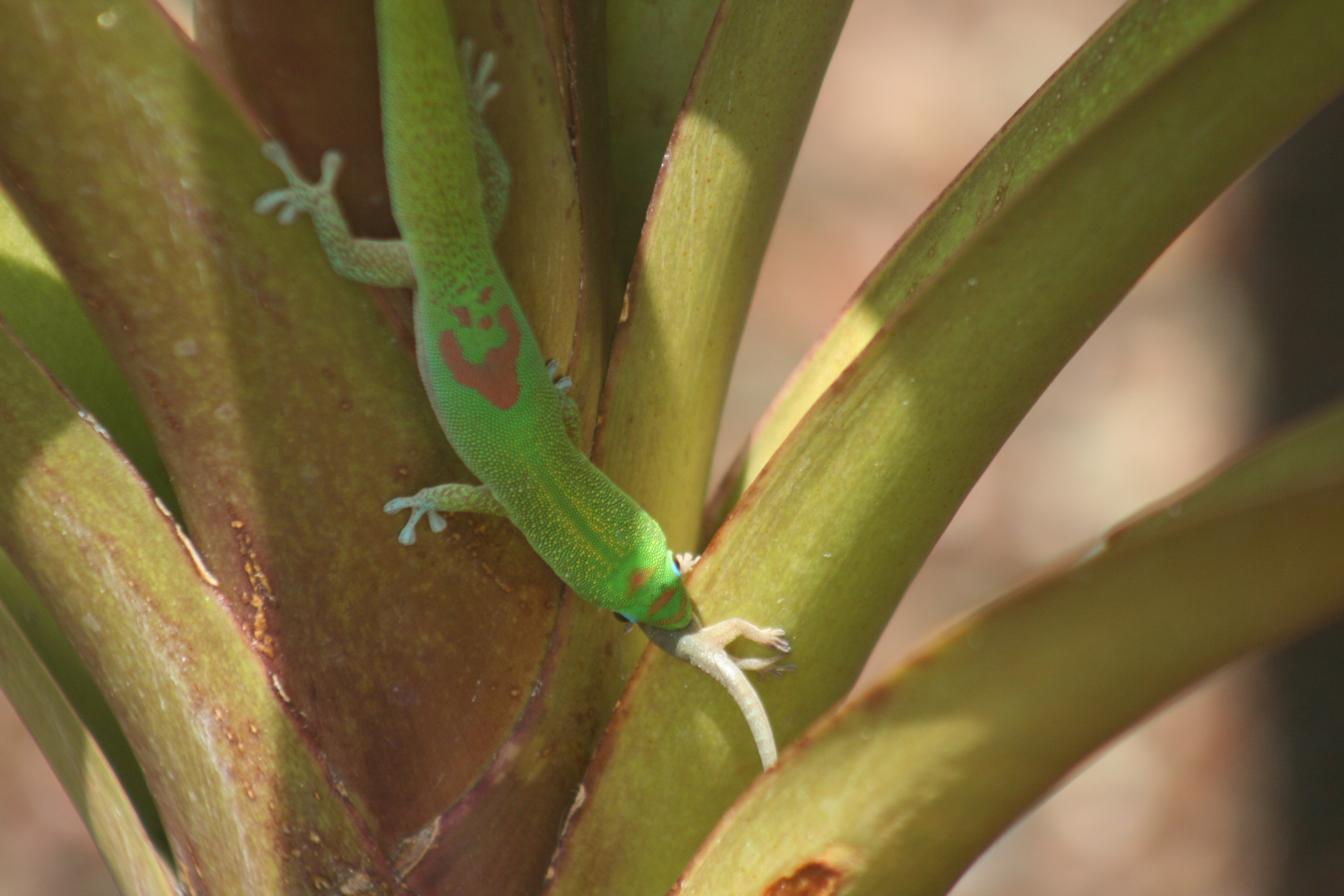 Gold dust day gecko is consuming a baby lizard.